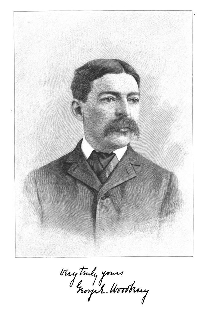 Depicted person: George Edward Woodberry – American poet and literary critic